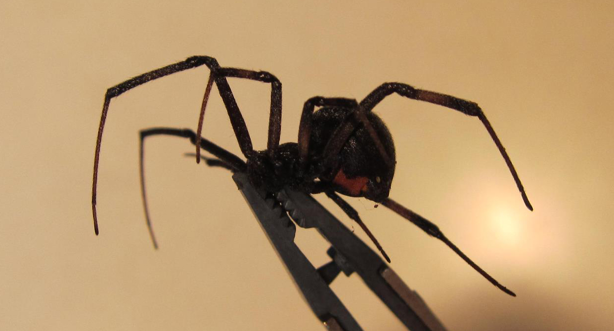 Profile Photo of a Mature Latrodectus southern Black Widow spider